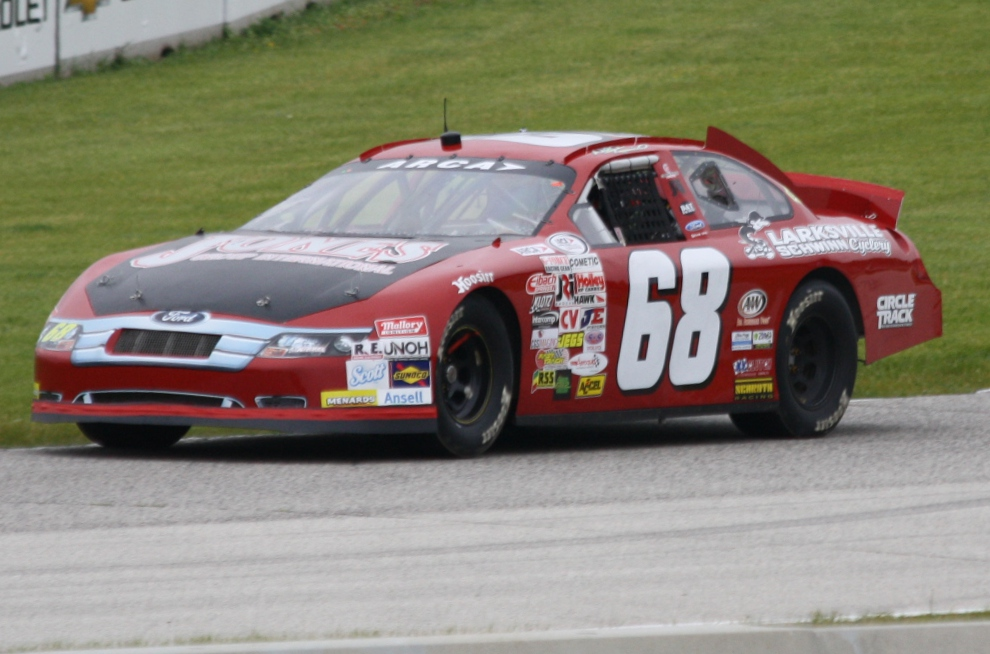 Josh Williams #68 ARCA stock car at Road America in 2013.